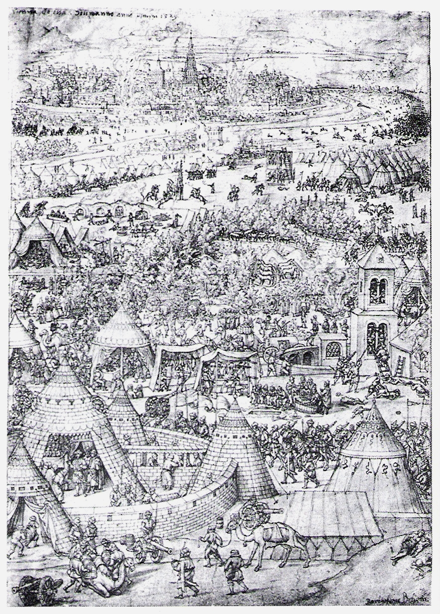 Engraving of the Siege of Vienna (1529)